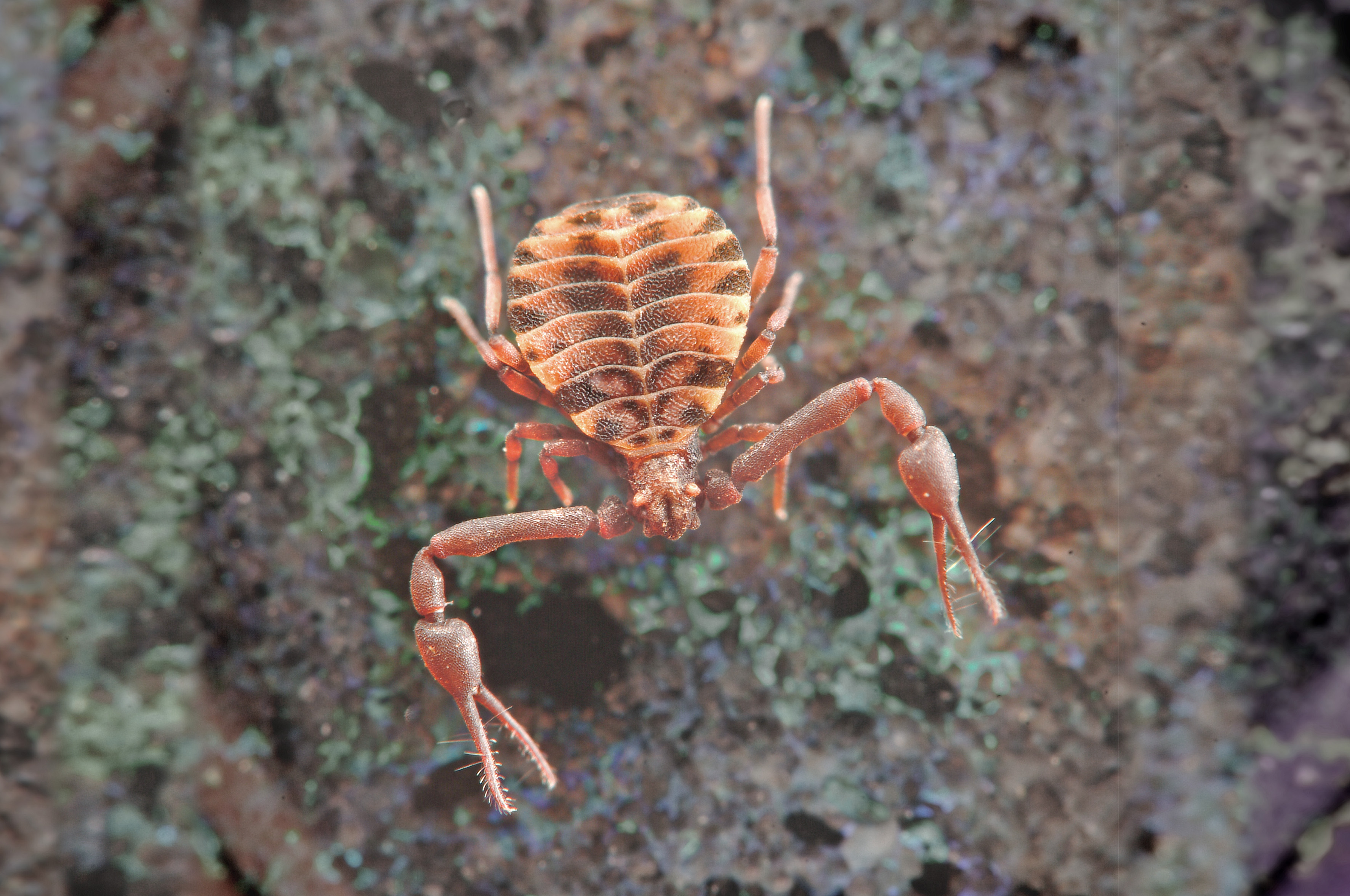 The pseudoscorpion Neopseudogarypus scutellatus photographed at Cataract Gorge, Launceston, Tasmania in January 2007.